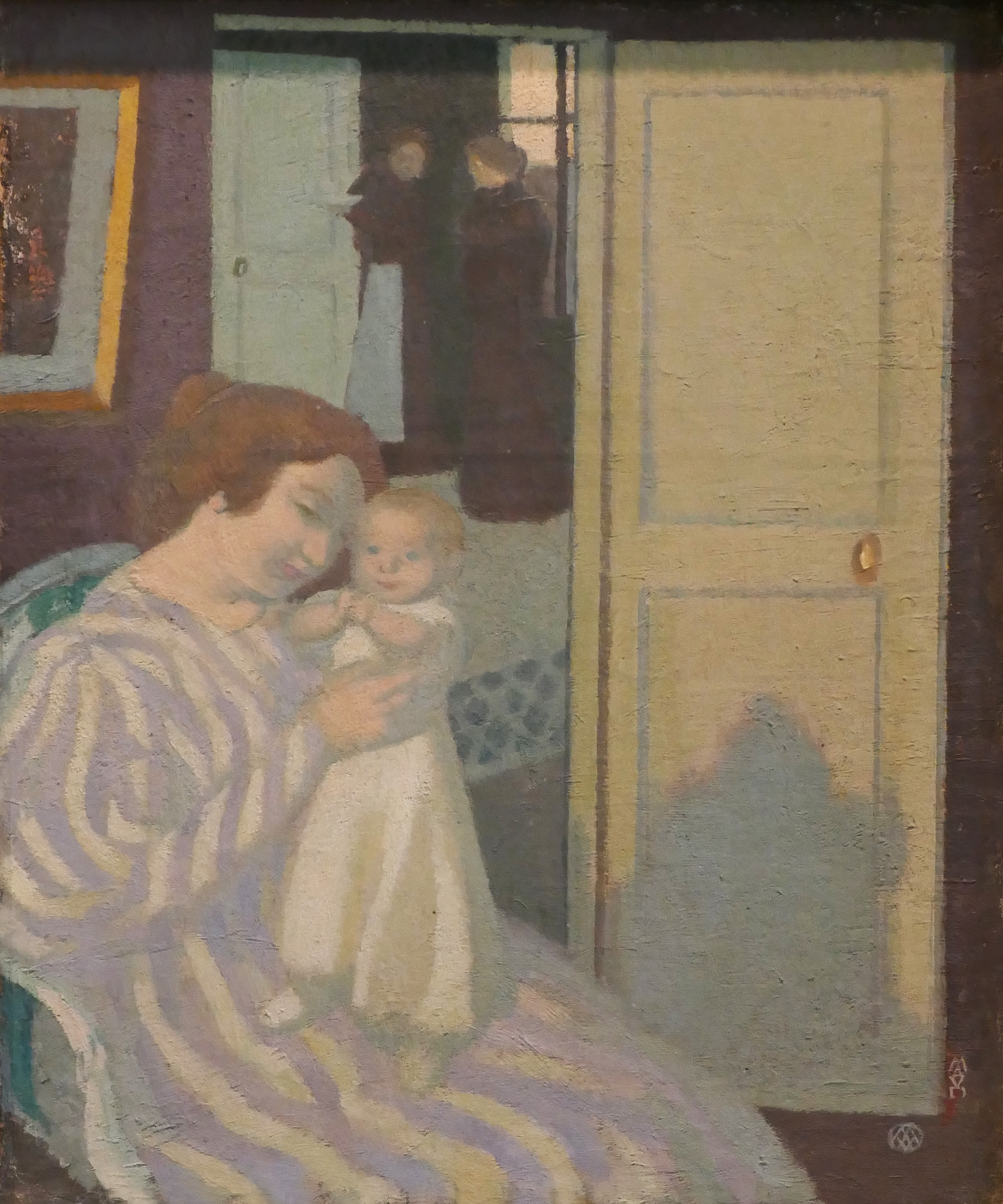 Maurice Denis, Mother and Child, 1897. Oil on canvas. Hermitage Museum, St. Petersburg. From M.A. Morozov's collection. This is a faithful photographic reproduction of a two-dimensional, public domain work of art. The work of art itself is in the public domain for the following reason: The author died in 1943, so this work is in the public domain in its country of origin and other countries and areas where the copyright term is the author's life plus 75 years or fewer. You must also include a United States public domain tag to indicate why this work is in the public domain in the United States. Note that a few countries have copyright terms longer than 75 years: Mexico has 100 years, Jamaica has 95 years, and Colombia has 80 years. This image may not be in the public domain in these countries, which moreover do not implement the rule of the shorter term. Côte d'Ivoire has a general copyright term of 99 years, but it does implement the rule of the shorter term. This file has been identified as being free of known restrictions under copyright law, including all related and neighboring rights. The official position taken by the Wikimedia Foundation is that "faithful reproductions of two-dimensional public domain works of art are public domain".This photographic reproduction is therefore also considered to be in the public domain in the United States. In other jurisdictions, re-use of this content may be restricted; see Reuse of PD-Art photographs for details.